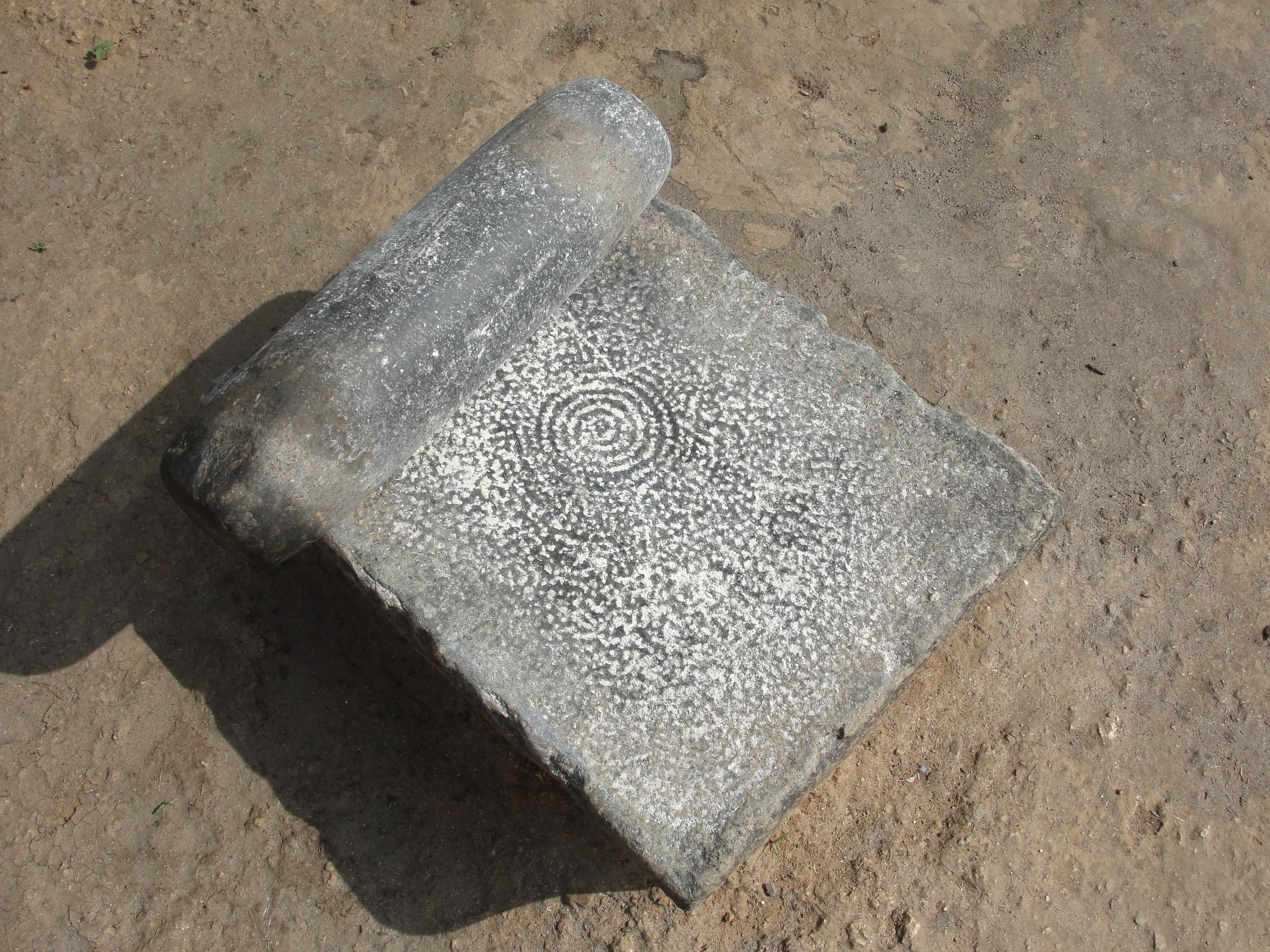 Ammi (அம்மி) is an kitchen equipment used to manually grind small spices.